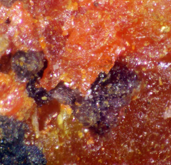 Dark red christite crystal, a very rare thallium mineral, in a matrix of orpiment and realgar from a new find in Shimen, China (Jiepaiyu, Shimen County, Hunan Province), a locality that was only previously known for orpiment and realgar crystals. Specimen analyzed by SEM.